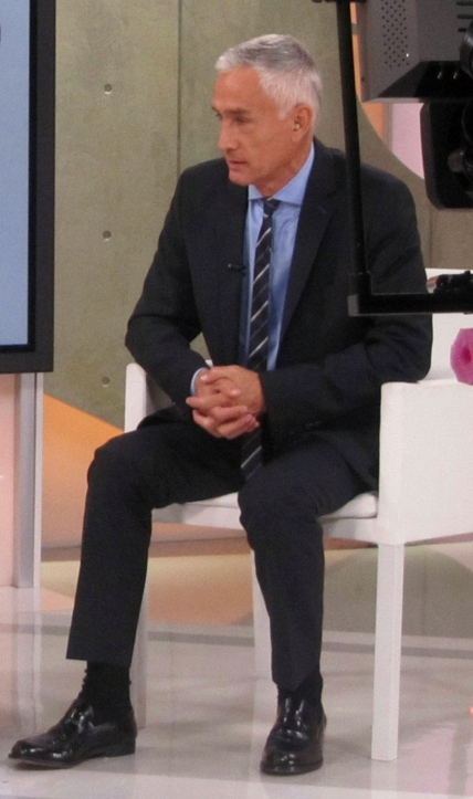 Assistant Secretary of State for Economic and Business Affairs Jose W. Fernandez chats with Univision's Jorge Ramos before the interview for the program, Al Punto, in Miami, Florida, February 6, 2013. [State Department photo/ Public Domain]